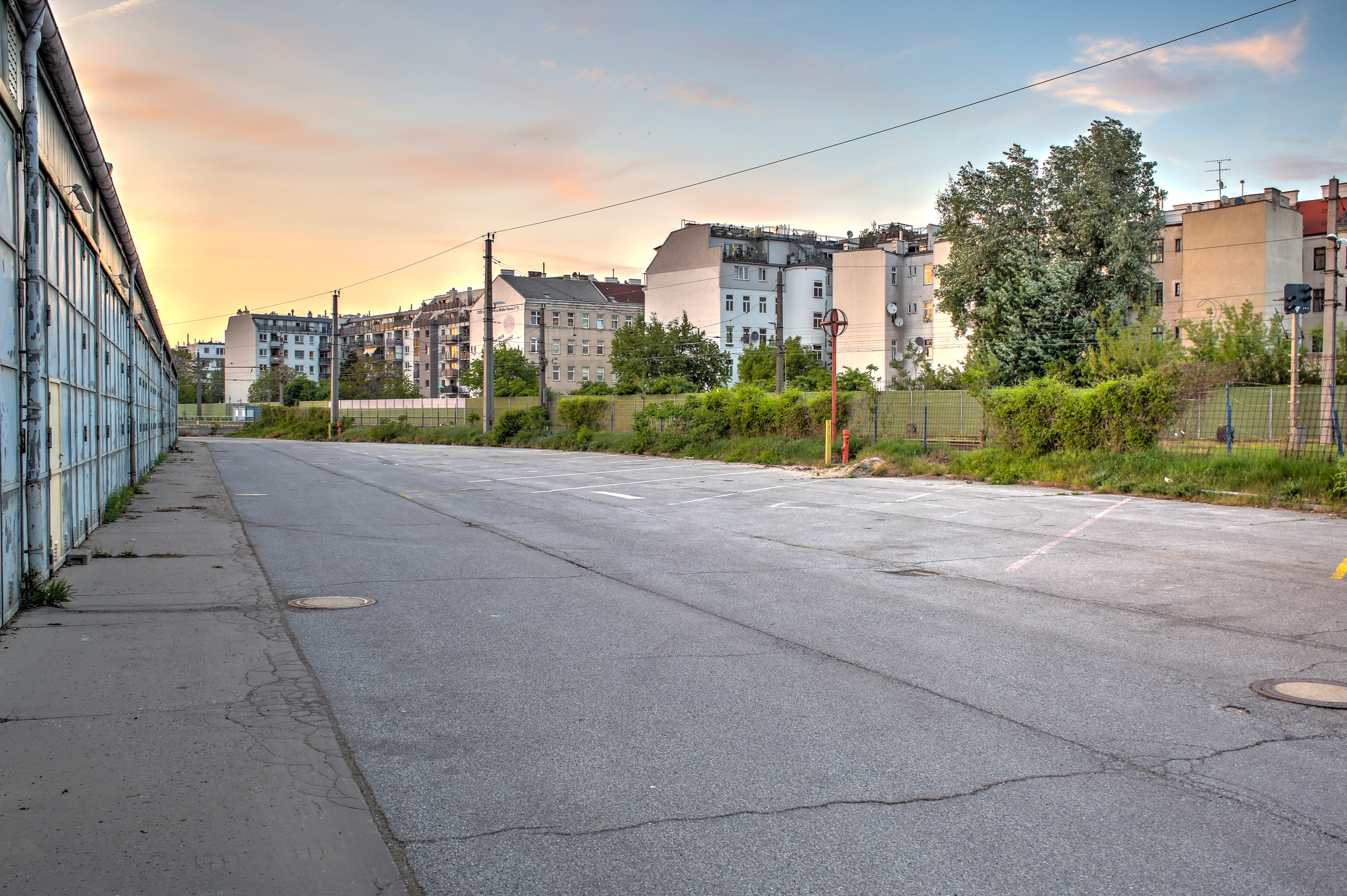 Bus Garage at the Nordwestbahnhof (Nordwest Railway Station) at Brigittenau, the XX. district of Vienna / Austria / EU. In the background the Brigittenau district Zwischenbrücken approximately at the level of Hellwagstraße. Evening. The parking lot at the garages is empty.